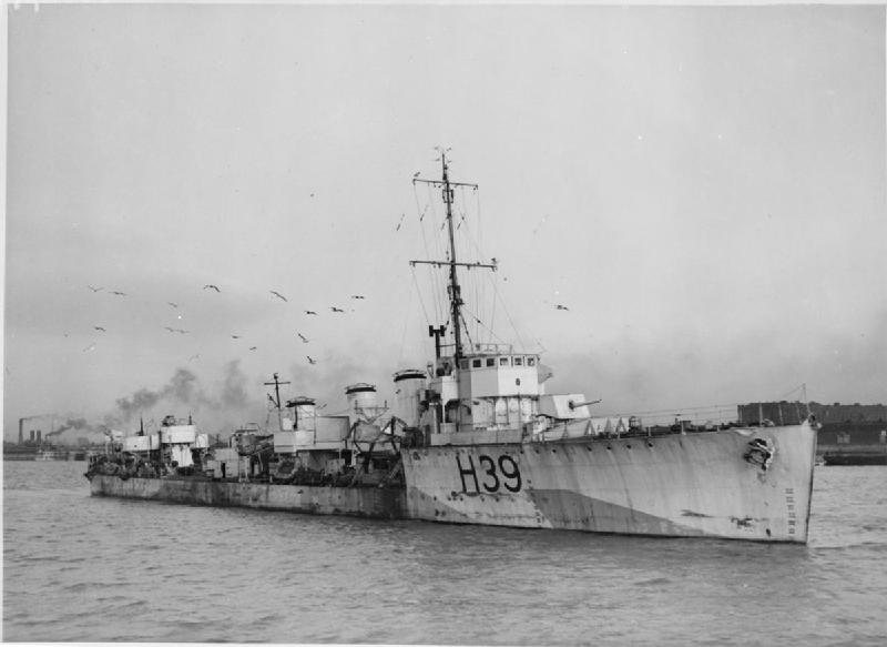 Starboard view of HMS SKATE docked at Liverpool. This destroyer brought surrendered U-Boats into Harwich in during the First World War. At this time, she was the last ship of the old "Admiralty R" class to survive, the oldest ship in the Royal Navy and the only three funnelled destroyer.